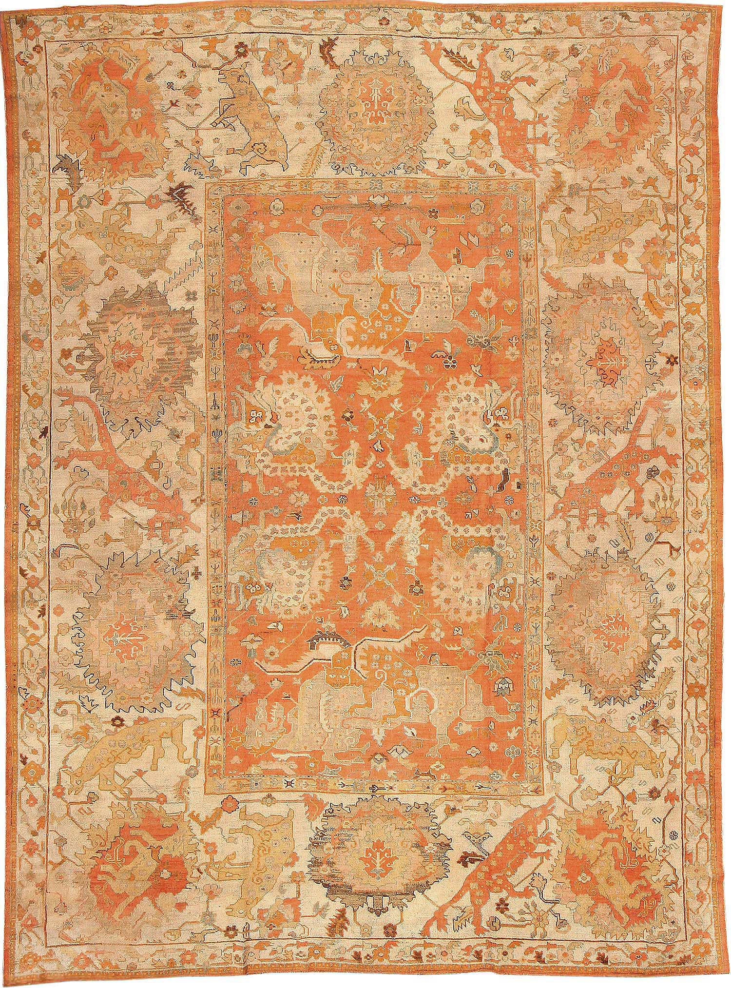 The exuberance, grace, and fantasy of classical oriental carpet design come alive on this magnificent antique Oushak. Four sinuous dragons rotate about the center of the rich apricot field, while above and below them winged lions pounce on larger fantastic creatures. In the monumental ivory border more animals prance across vines and palmettes rendered in the same soft greens and apricots of the field.